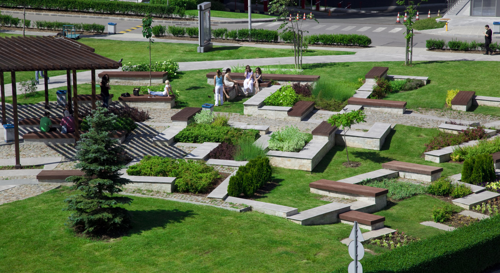 Бизнес Парк София